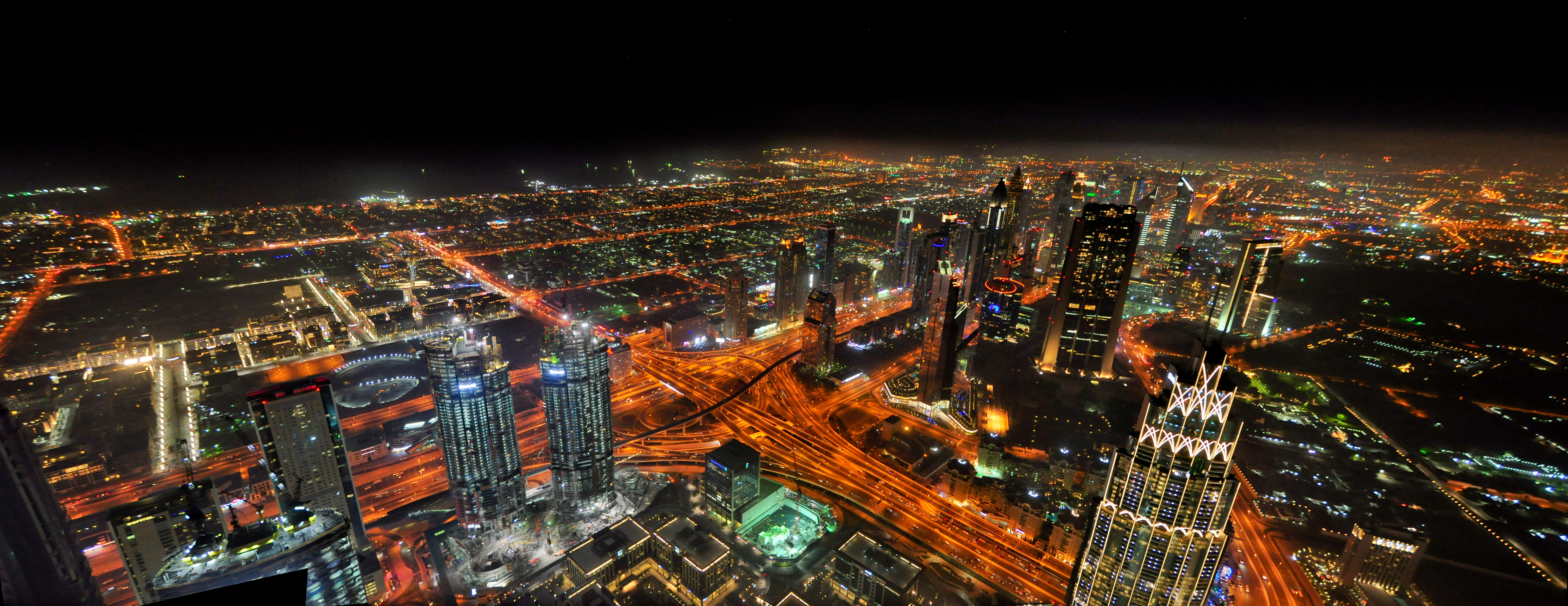 shot from Burn khalifa